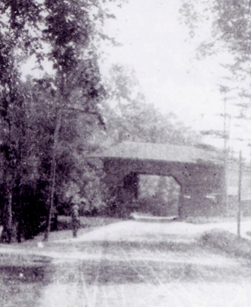 The tollgate in Slingerlands along the Albany, Rensselaerville, Schoharie Turnpike, looking east.